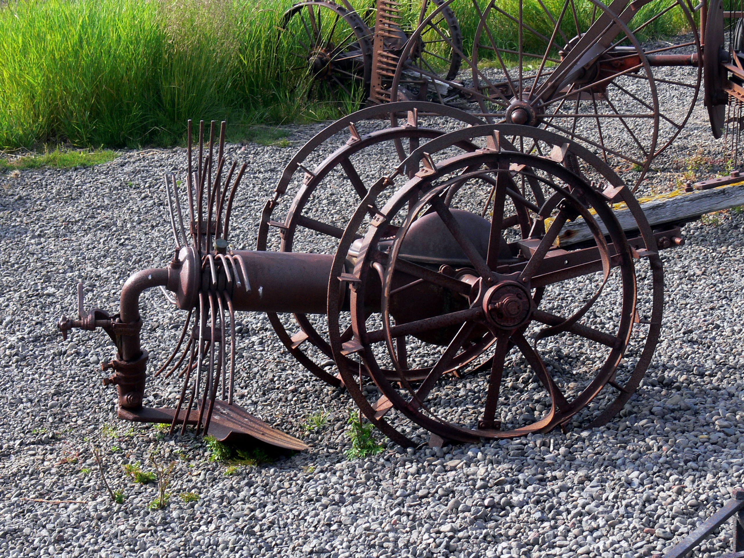 Laufas. Museum: Farming tools - potato harvester.